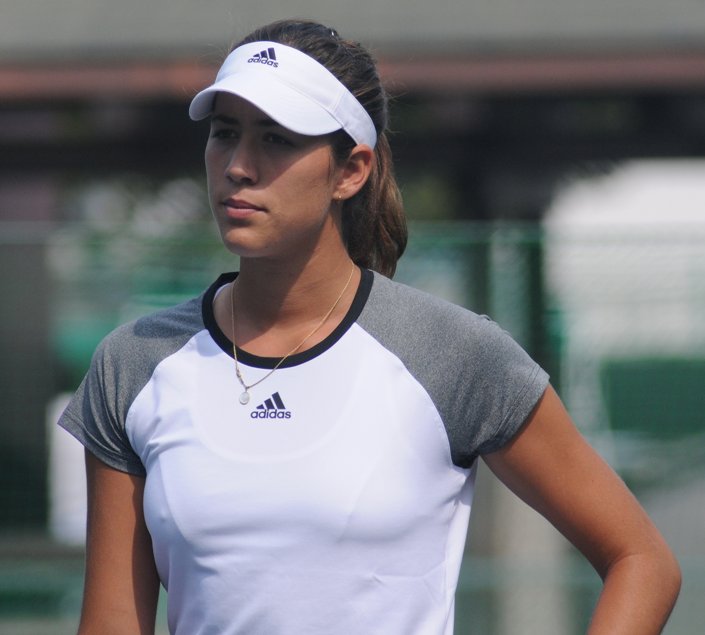 Garbiñe Muguruza at the 2014 Toray Pan Pacific Open